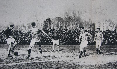 France - Italy, friendly football match, 20 february 1921 in Marseille.France, dark jersey.